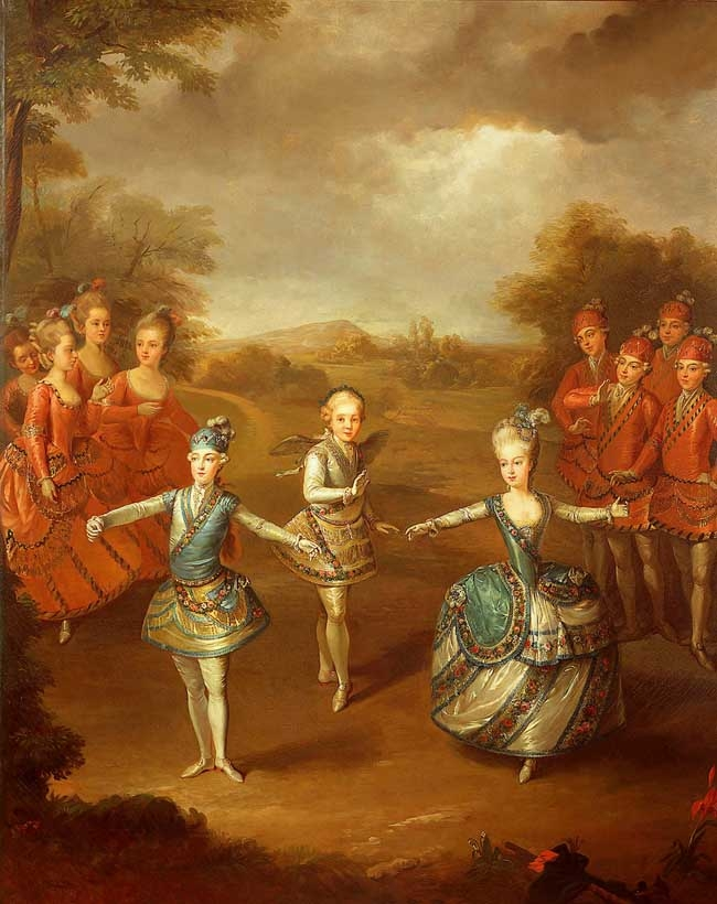 Archduchess Maria Antonia of Austria, the later Queen Marie Antoinette of France, is dancing ballet with her brothers Archduke Ferdinand of Austria and Archduke Maximilian Franz of Austria on a Fête organized to celebrate the marriage of the Holy Roman Emperor Joseph II. to Princess Marie-Josèphe of Bavaria 23/24 January 1765", Oil on Canvas, 72 x 57 inches. 183 x 145 cm,1765, Hofburg, Vienna